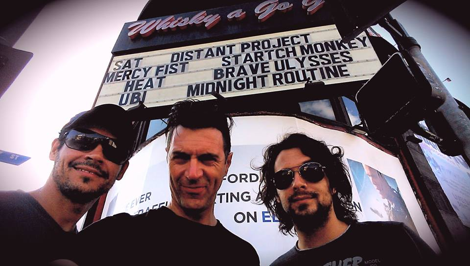 Distant Project